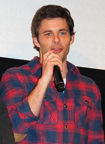 A photo of actor James Marsden during the question and answer portion at the world premiere of Robot and Frank in January 2012.